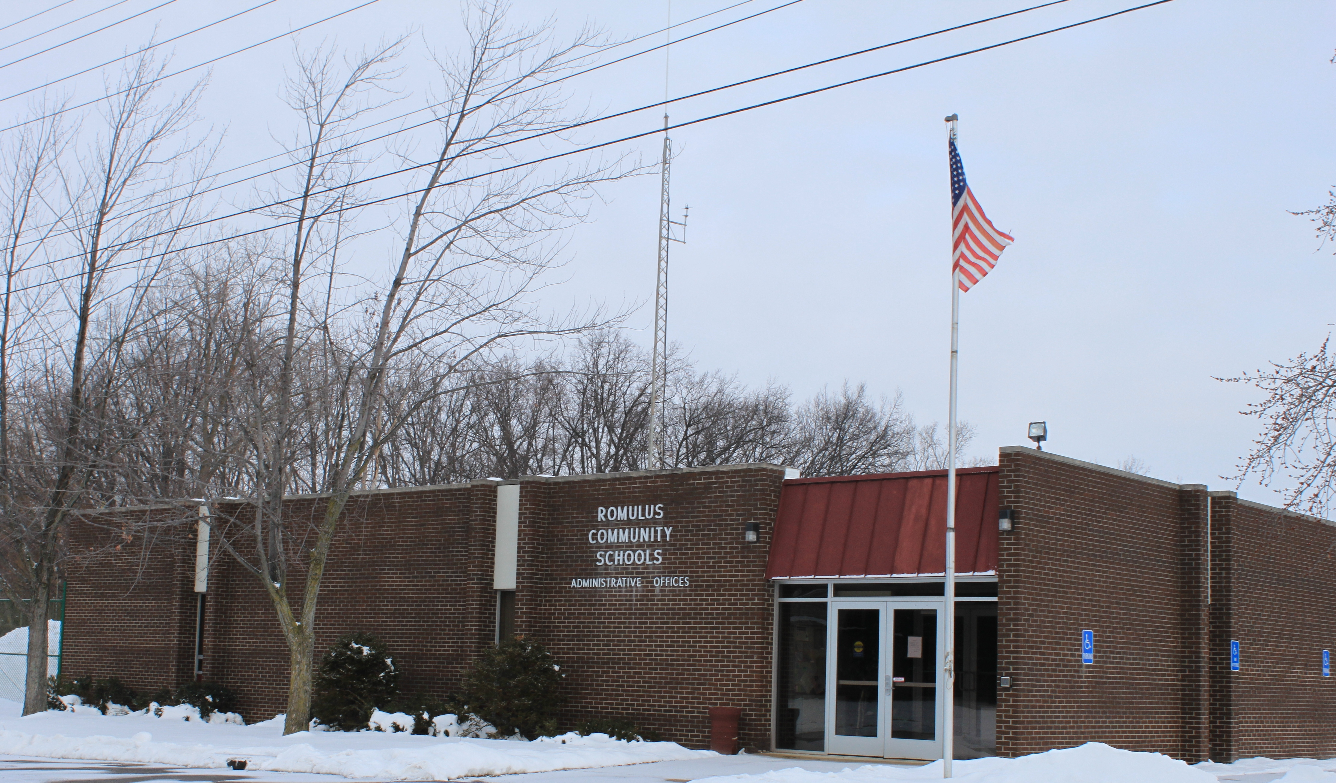 Romulus Community Schools administrative offices, 36540 Grant Road, Romulus, Michigan